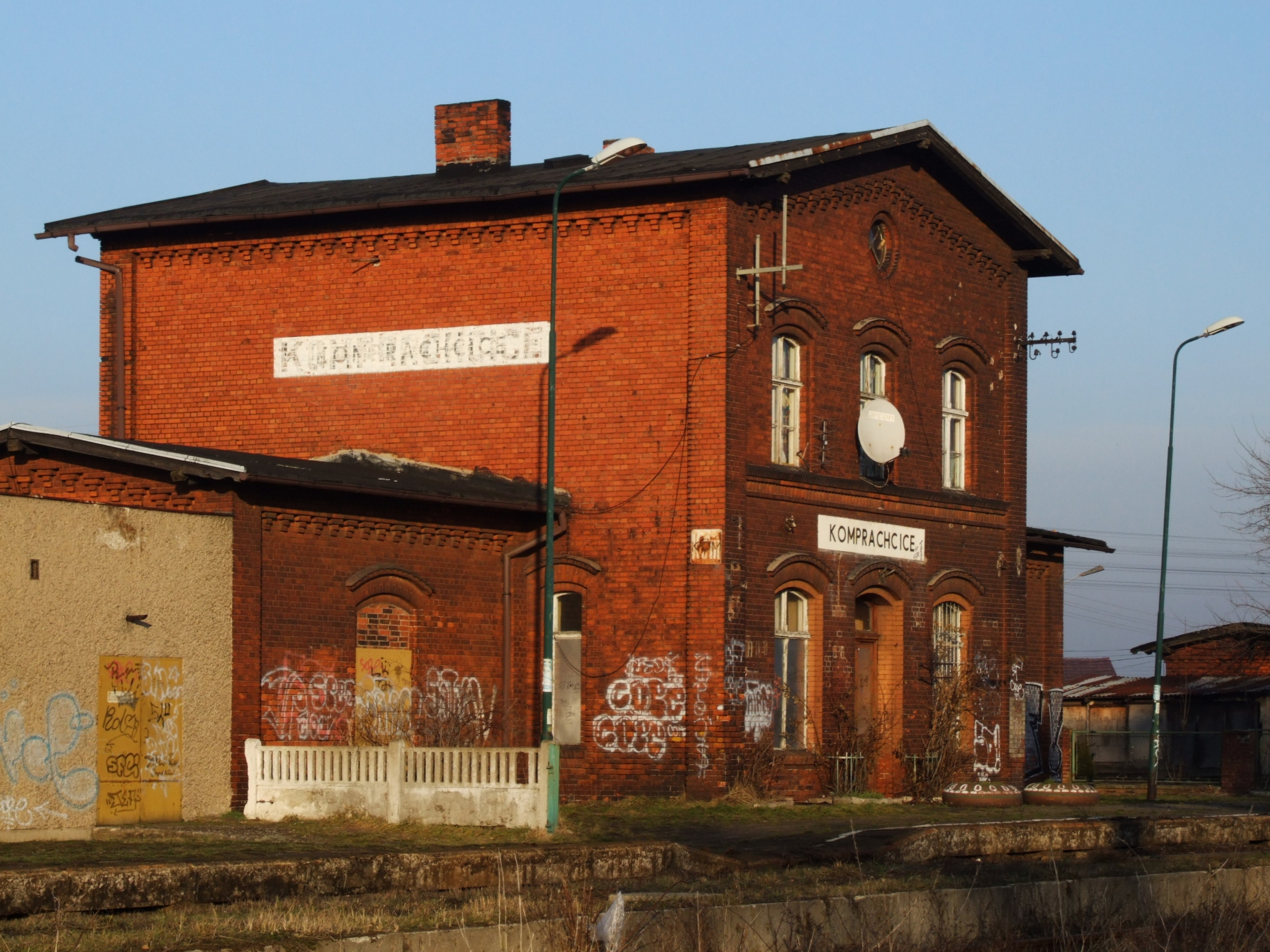 Komprachcice (Comprachschütz), Upper Silesia - train station